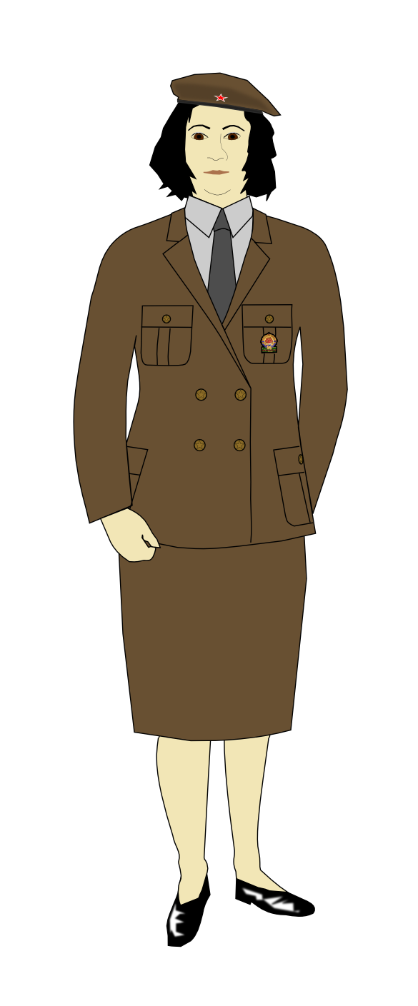 Yugoslavian Customs officer in 1962- Woman uniform. Based on legal prescription in official journal: Službeni list FNRJ , broj 33, god. XVIII. (15. kolovoza 1962). »Pravilnik o službenom odijelu službenika carinske službe.« str. 661-663.